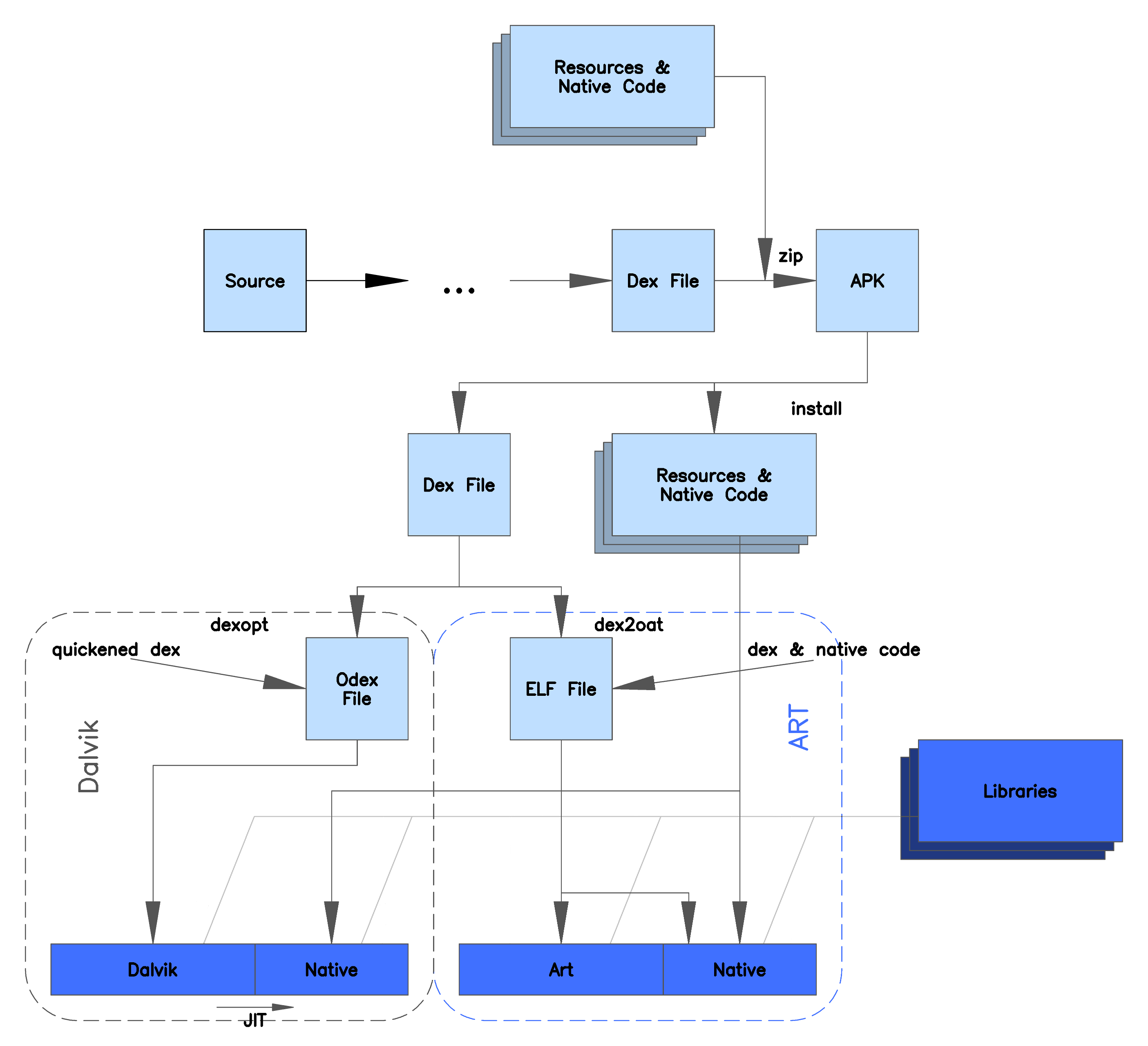 Diagram of the Android Run Time architecture, recreated from information published at A Closer Look at Android RunTime (ART) in Android L.